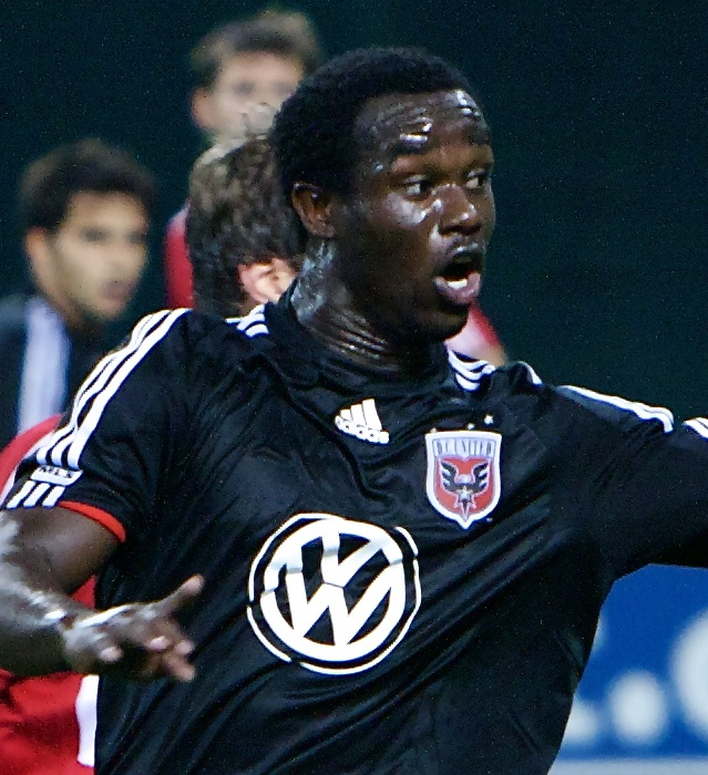 This file has been extracted from another file: Francis Doe DC United.jpg Francis Doe of DC United.